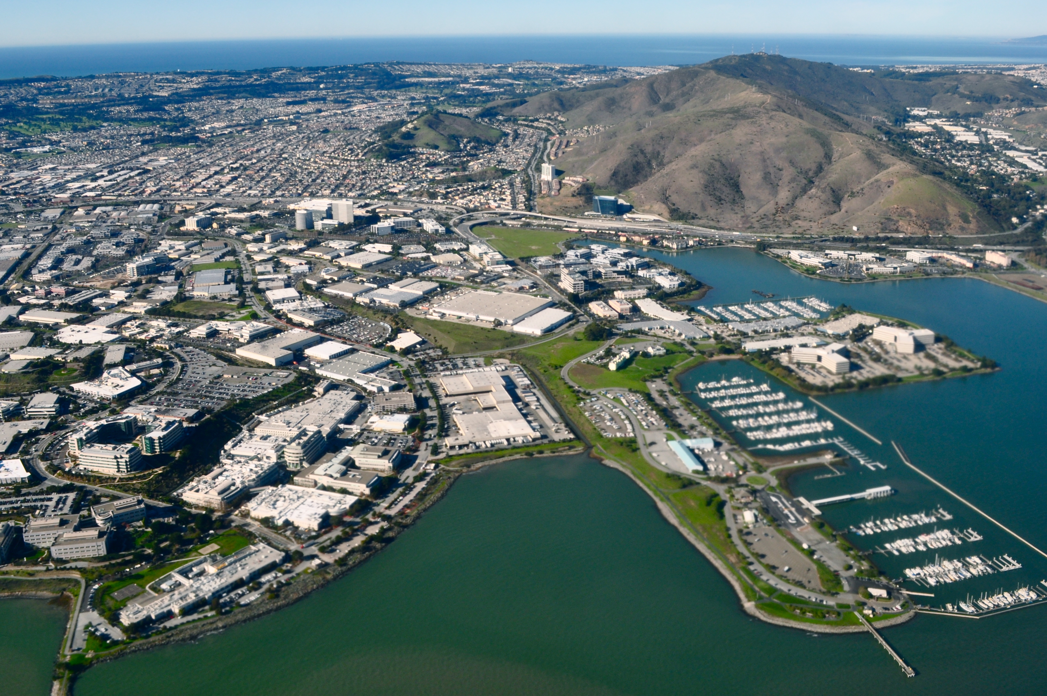 Oyster Point / The East Side / Paradise Valley (South San Francisco, California)